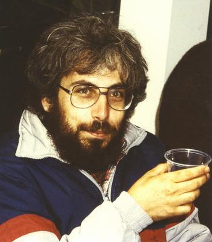 Gil Kalai, St. Cruz 1986